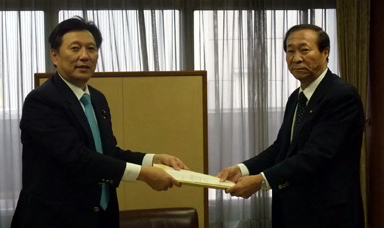 Yoshinori Suematsu, Senior Vice-Minister of Cabinet Office, met Yasumasa Shigeno, Secretary-General of the Social Democratic Party, on February 22, 2011.